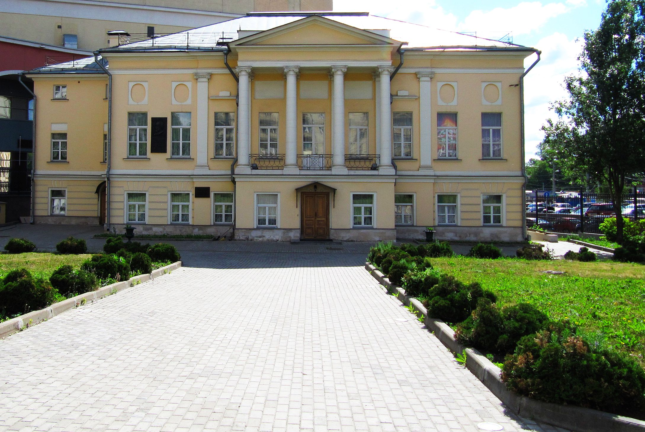 The Sergey Botkin Birth House. Moscow, Zemlyanoy Val Street, 35. Completed in 1822